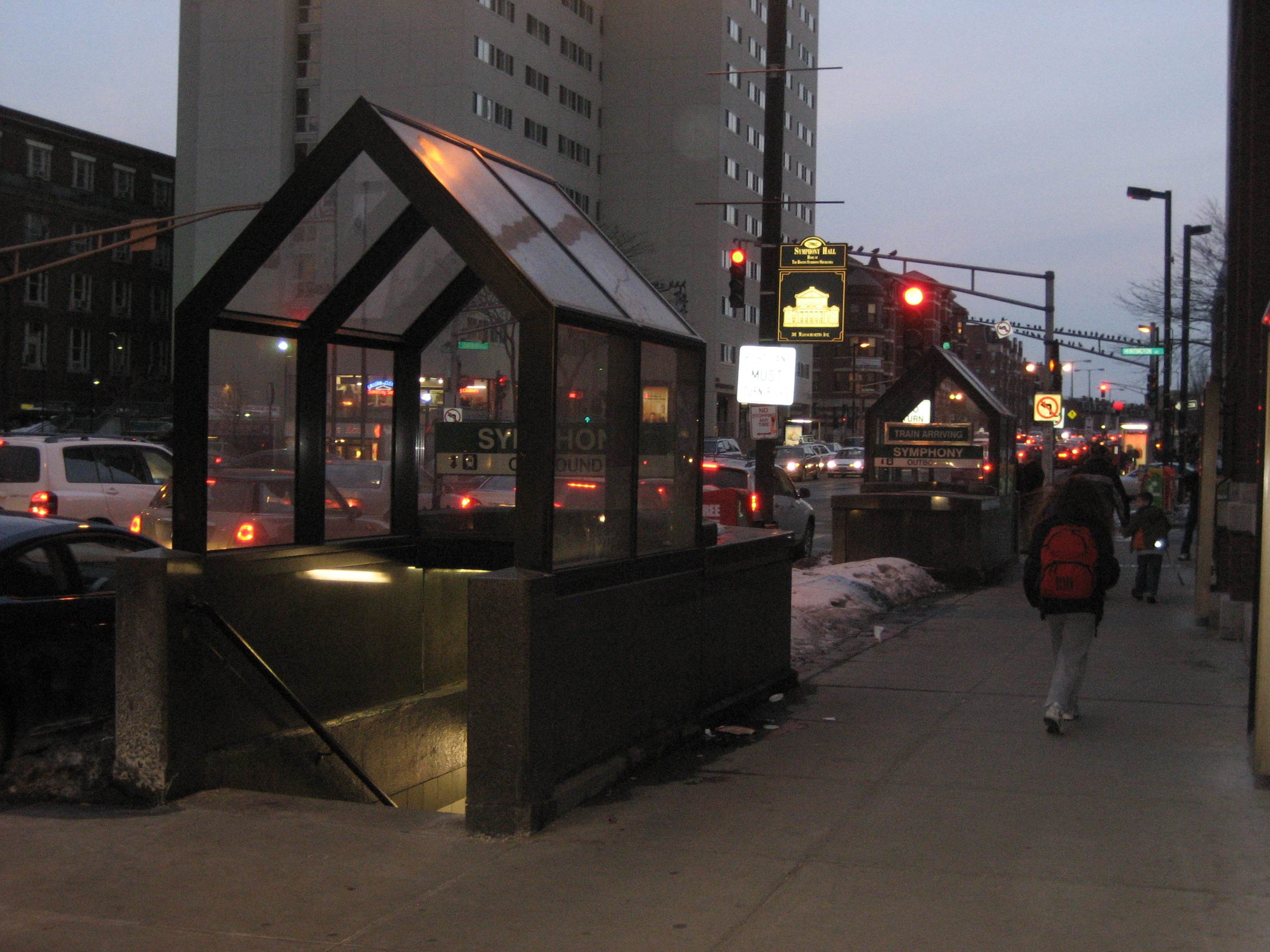 Outbound headhouse of MBTA Symphony station, in front of Symphony Hall